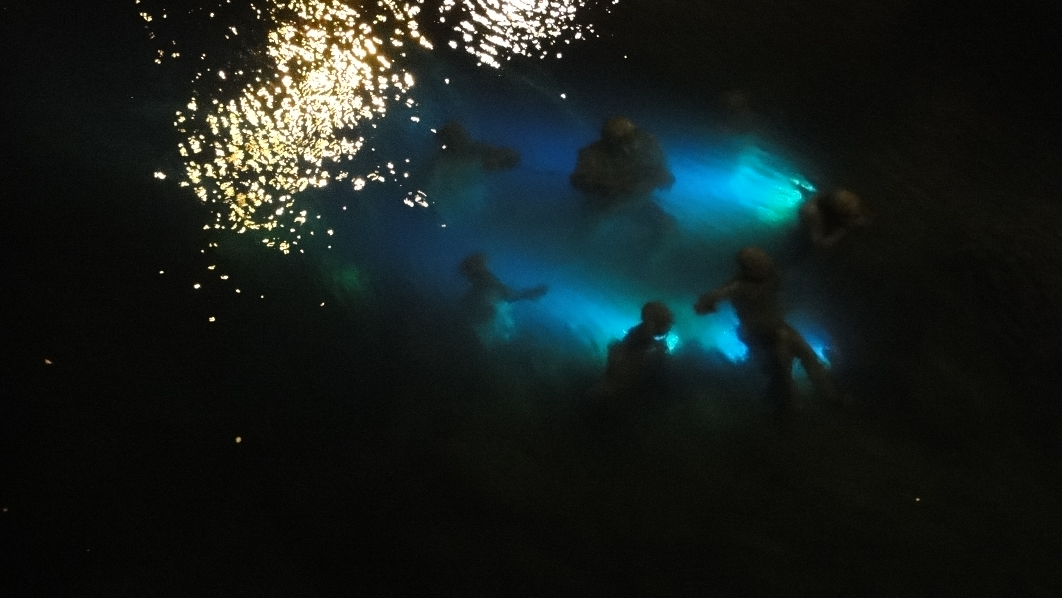 gnete and the Merman is a group of bronze sculptures in Copenhagen, Denmark, located underwater next to the Højbro Bridge. made in 1992 by the Danish sculptor, Suste Bonne